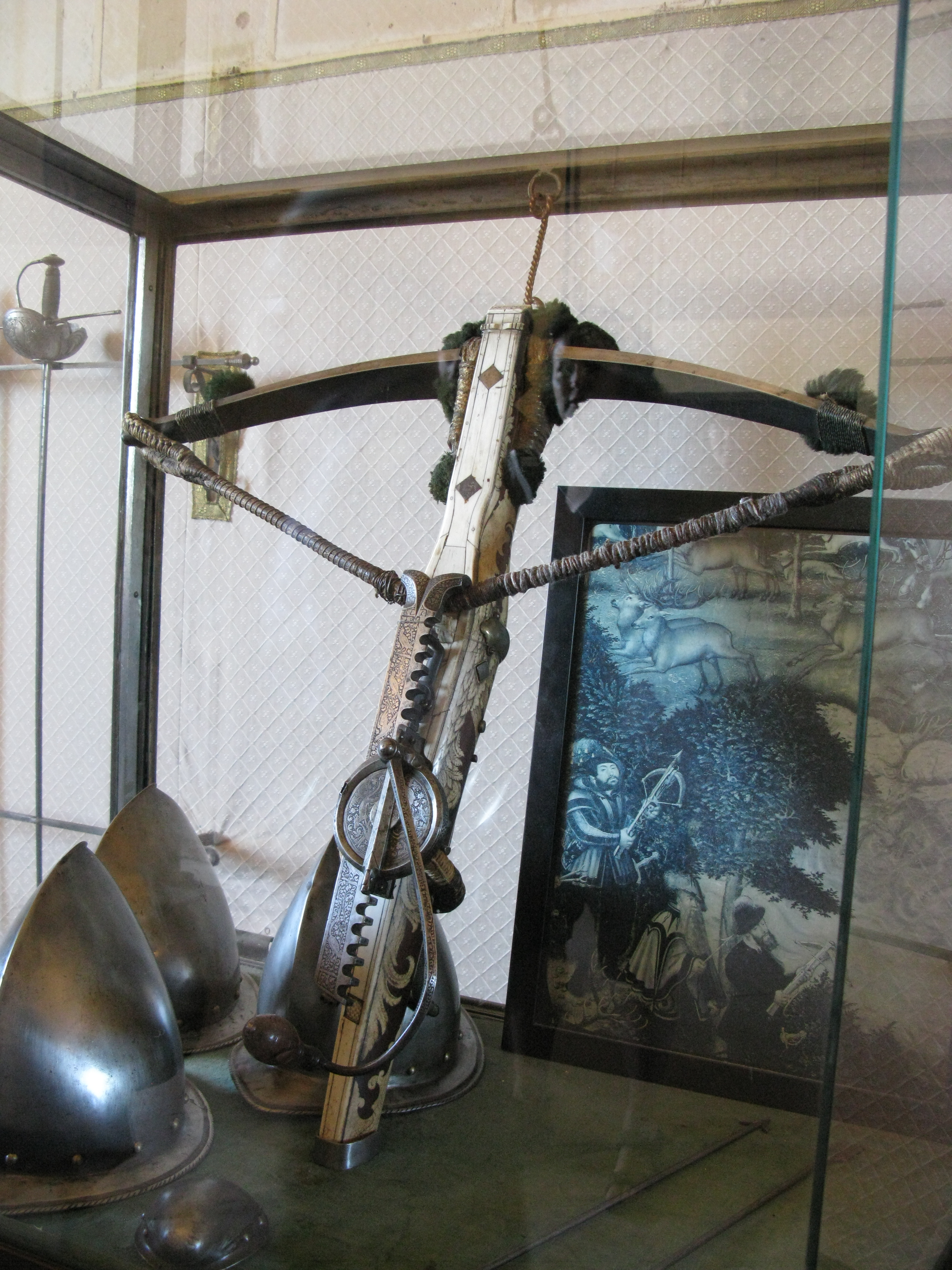 Historical Spanish crossbow. Alcázar of Segovia (Spain)